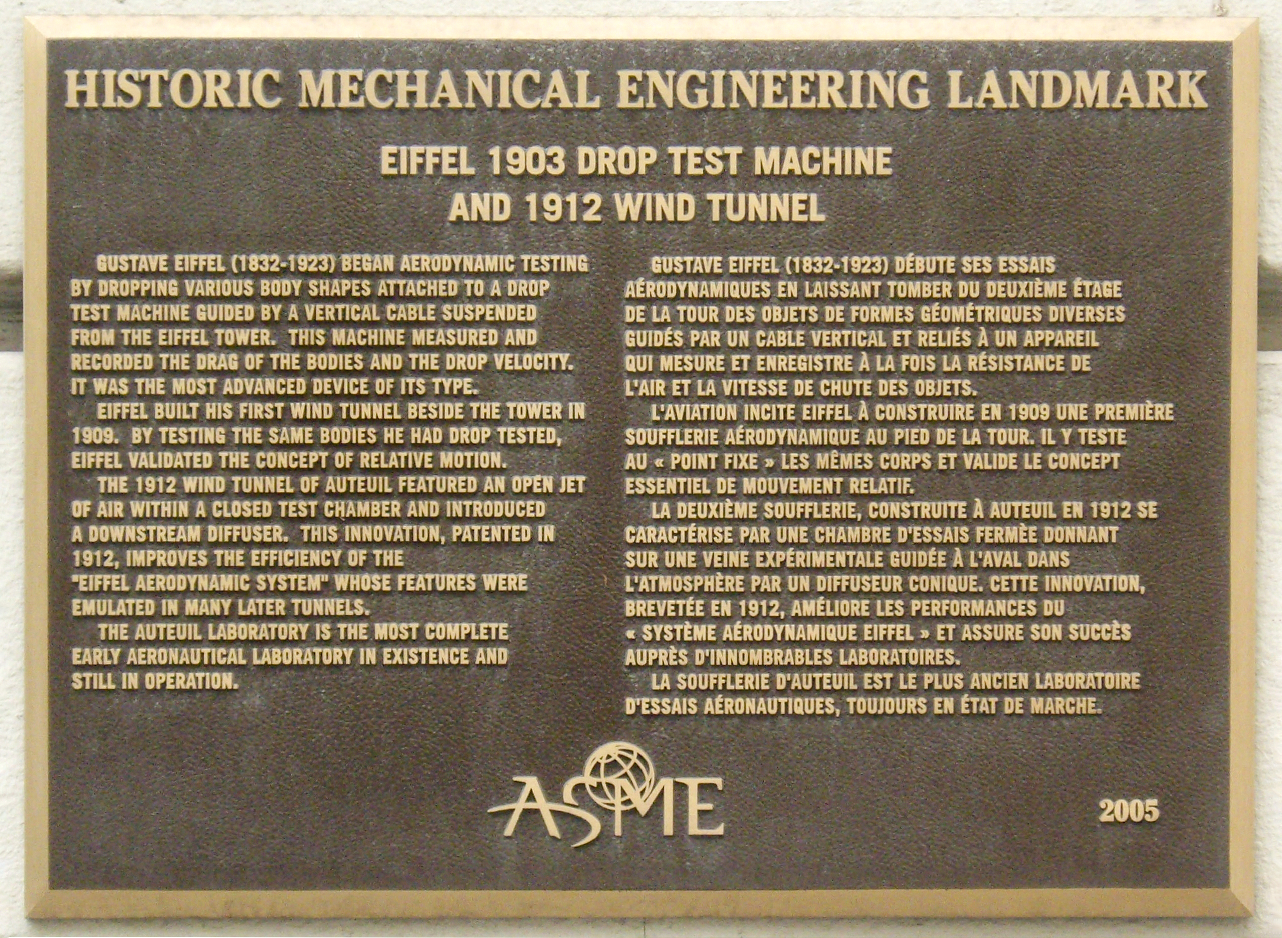 Commemorative plaque, Laboratoire Aérodynamique Eiffel, 67 Rue Boileau, Paris 16th.Historical Mechanical Engineering Landmark.Eiffel 1903 Drop Test Machine and 1912 Wind Tunnel.Gustave Eiffel (1832-1923) began aerodynamic testing by dropping various body shapes attached to a drop test machine guided by a vertical cable suspended from the Eiffel Tower. This machine measured and recorded the drag of the bodies and the drop velocity. It was the most advanced device of its type.Eiffel built his first wind tunnel beside the Tower in 1909. By testing the same bodies he had drop tested, Eiffel validated the concept of relative motion.The 1912 wind tunnel of Auteuil featured an open jet of air within a closed test chamber and introduced a downstream diffuser. This innovation, patented in 1912, improves the efficiency of the "Eiffel aerodynamic system" whose features were emulated in many later tunnels.The Auteuil laboratory is the most complete early aeronautical laboratory in existence and still in operation.ASME [American Society of Mechanical Engineers]. 2005.